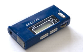 A photo of the blue 1gb edition of the Creative Zen Nano Plus